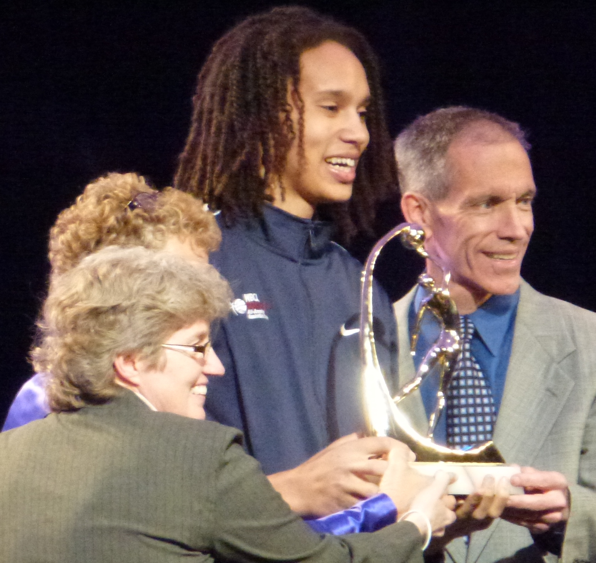 Brittney Griner accepting Wade Trophy at the WBCA Awards show in Denver Colorado. The male is the State Farm Representative.